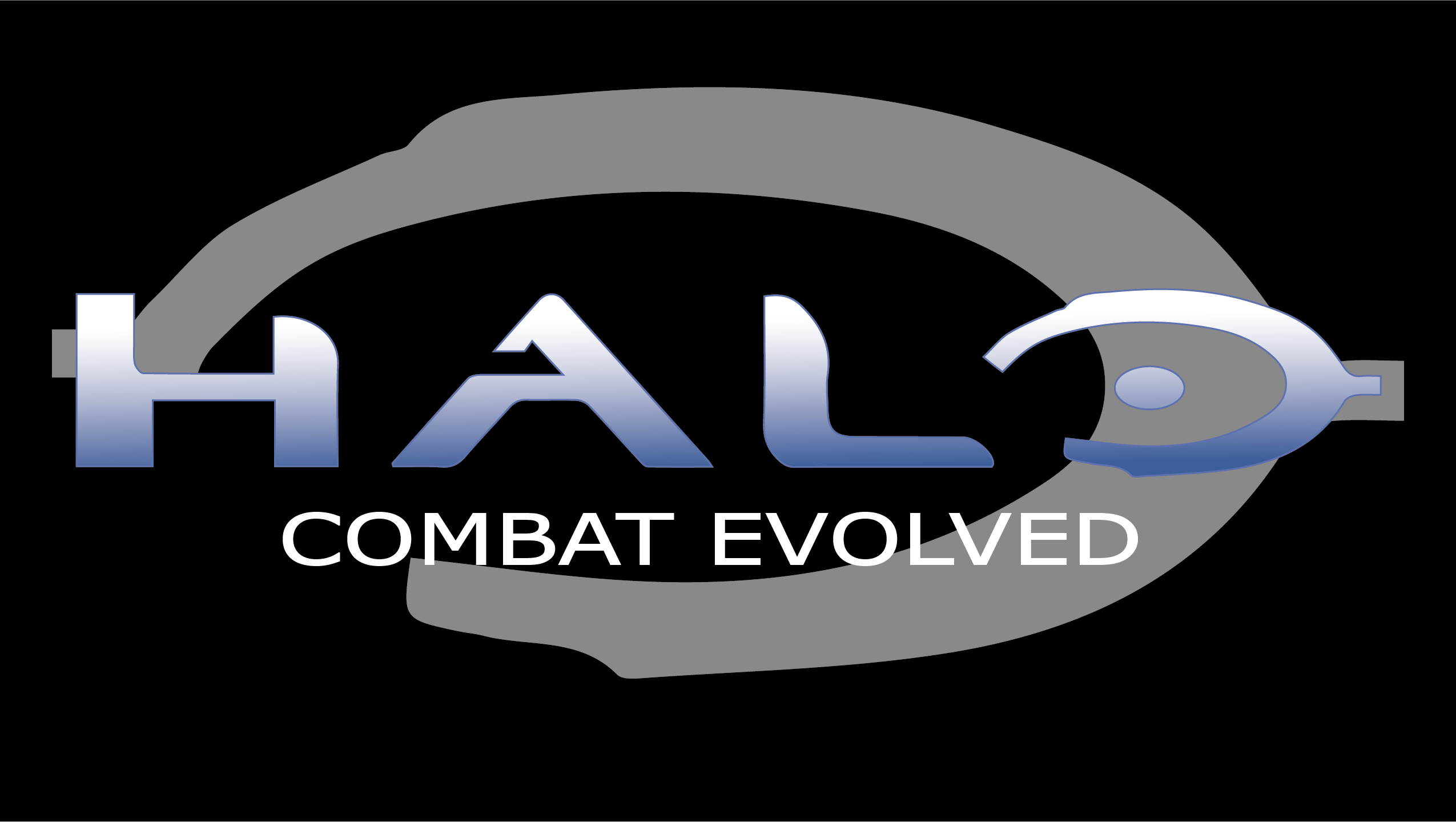 Halo CE logo created by Microsoft Studios and redesigned for wikipedia